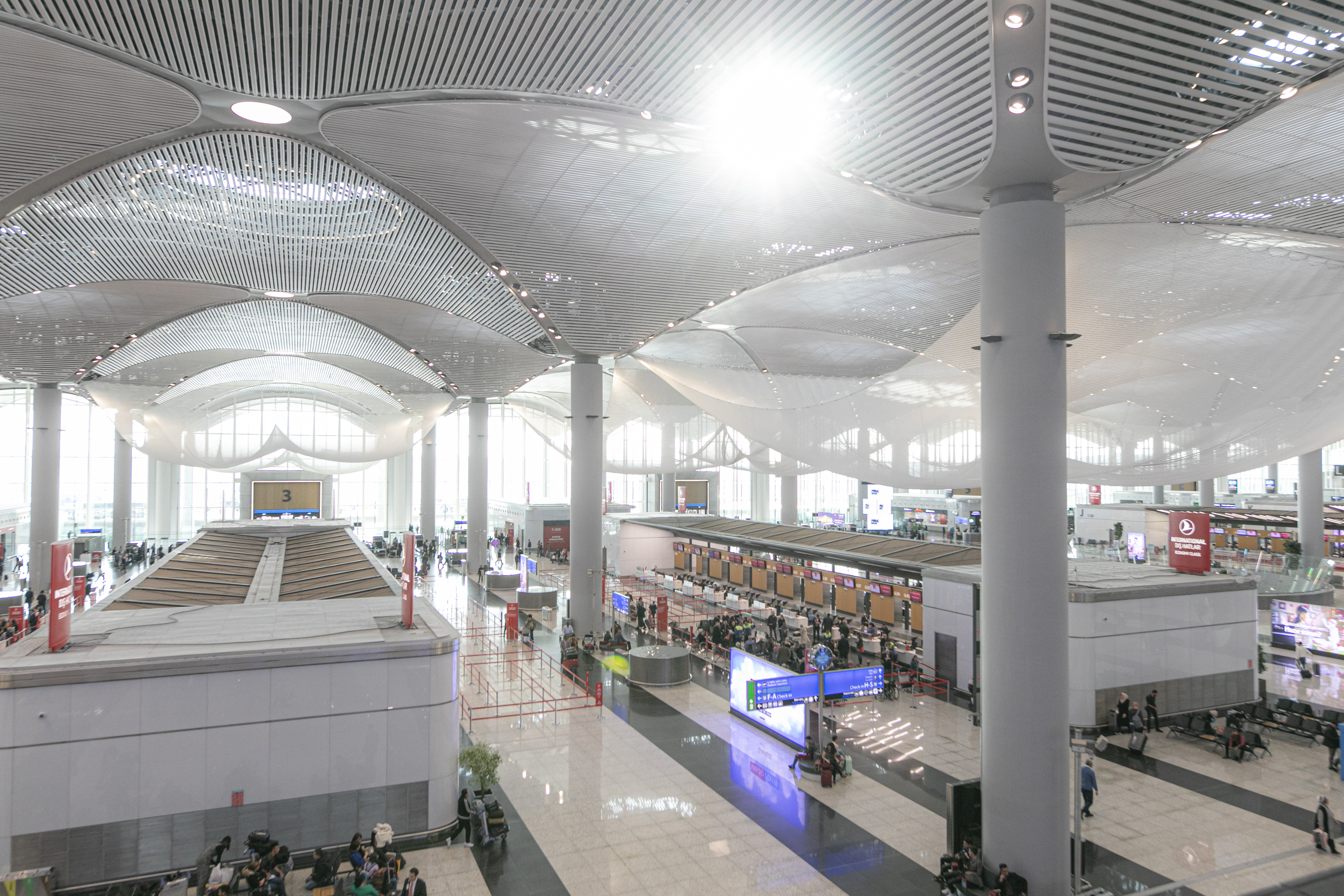 İstanbul Flughafen